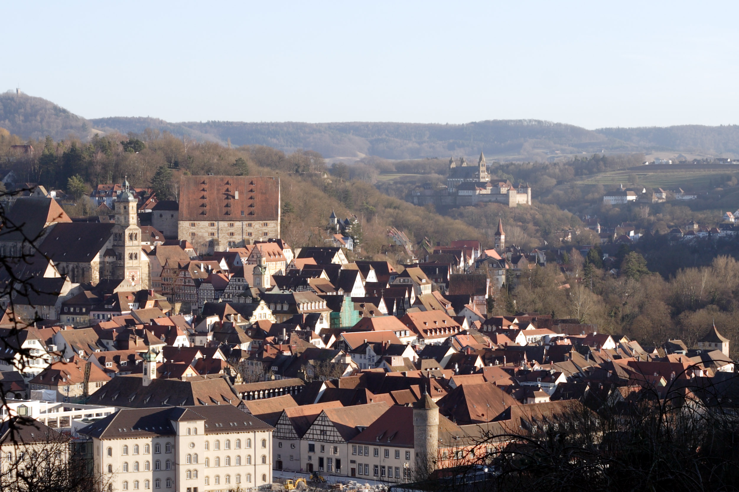 View of Schwäbisch Hall Historic Center and Comburg